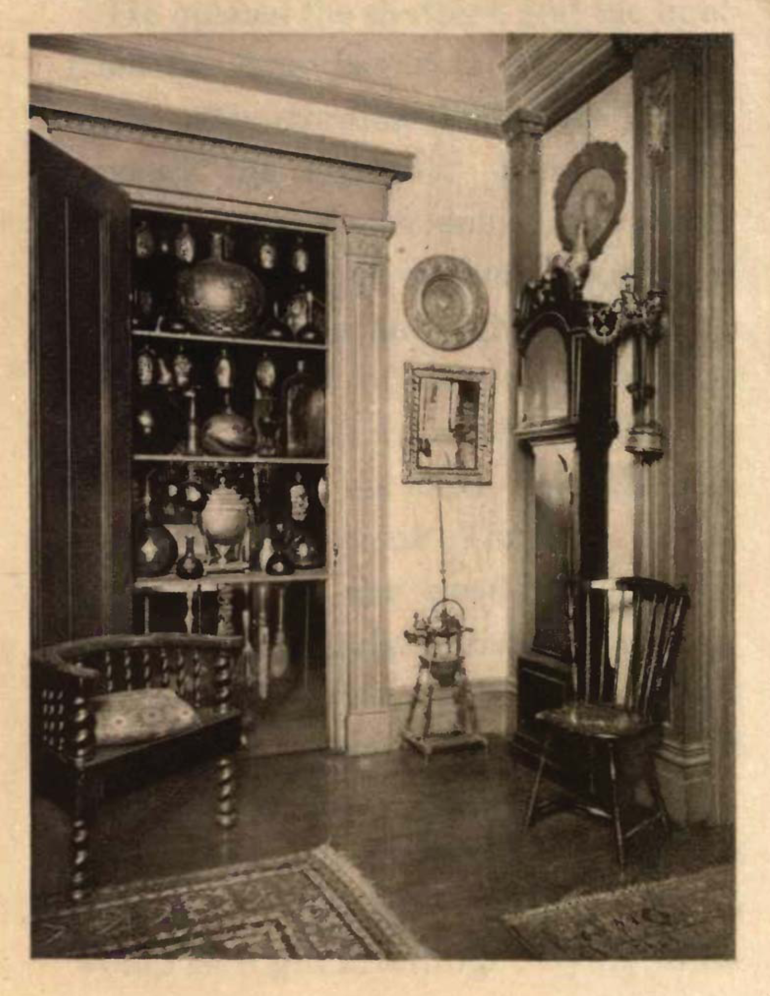 Alexander Wilson Drake, image from Three Midnight Stories. Private printing 1916, scanned from family-owned copy of original work. Summary Alexander Wilson Drake, image from Three Midnight Stories. Private printing 1916, scanned from family-owned copy of original work.